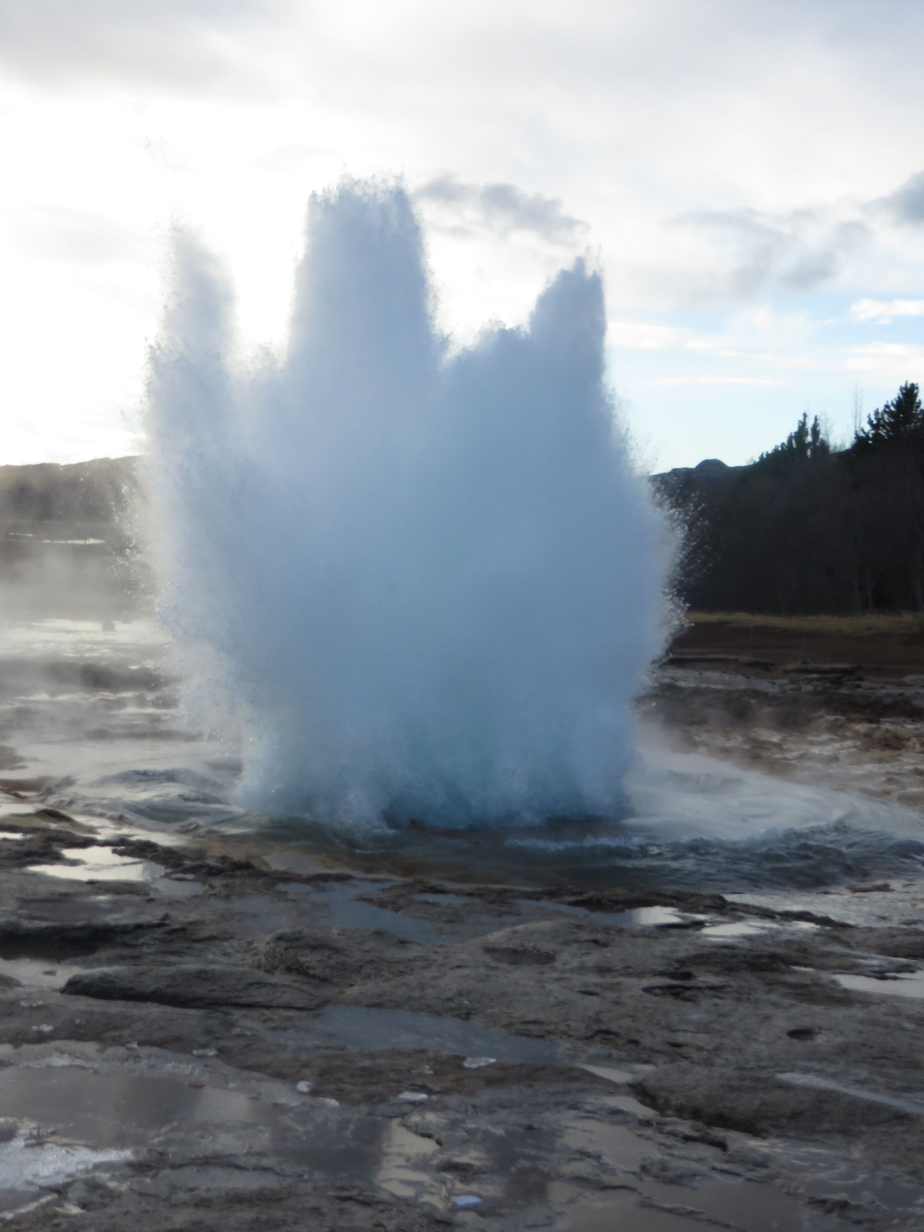 Strokkur, active geysir, Haukadalur, Golden Circle, Iceland